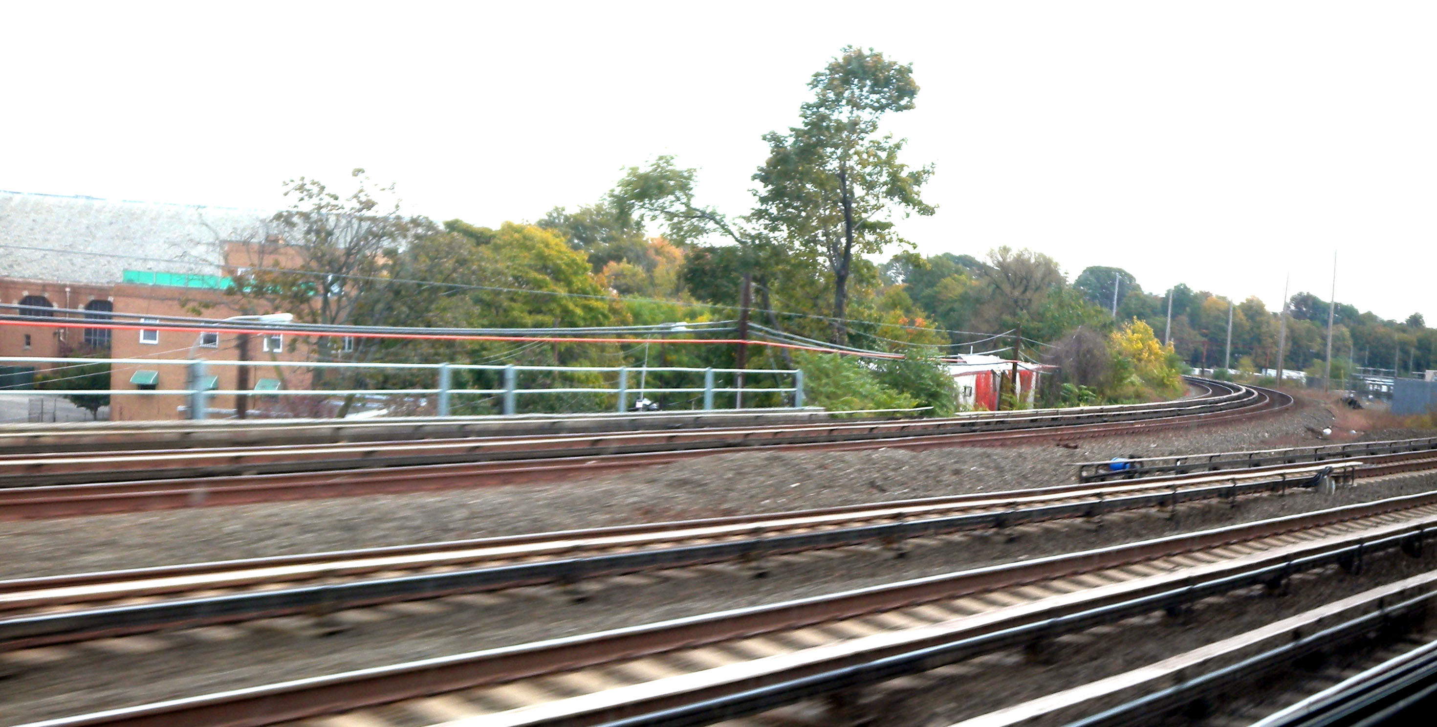 Looking east from eastbound Main Line train at Winfield Junction on a cloudy midday.